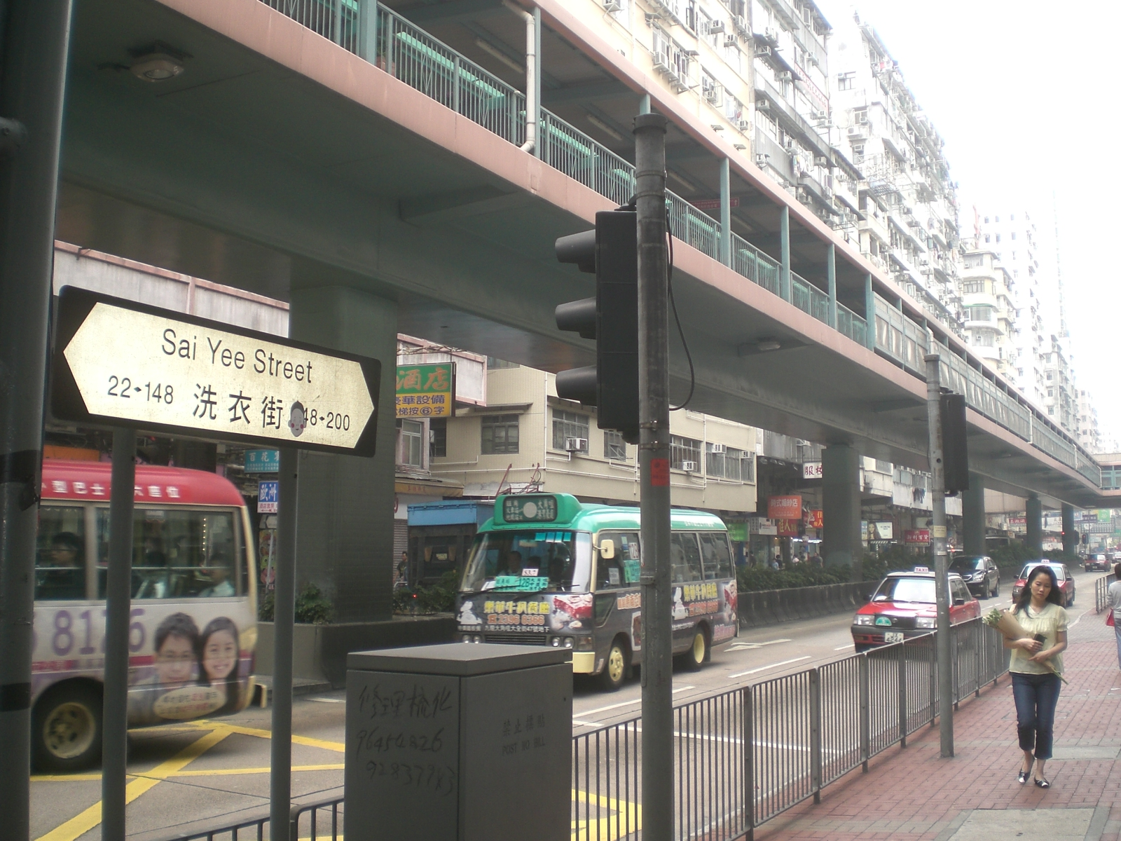 洗衣街行人天橋